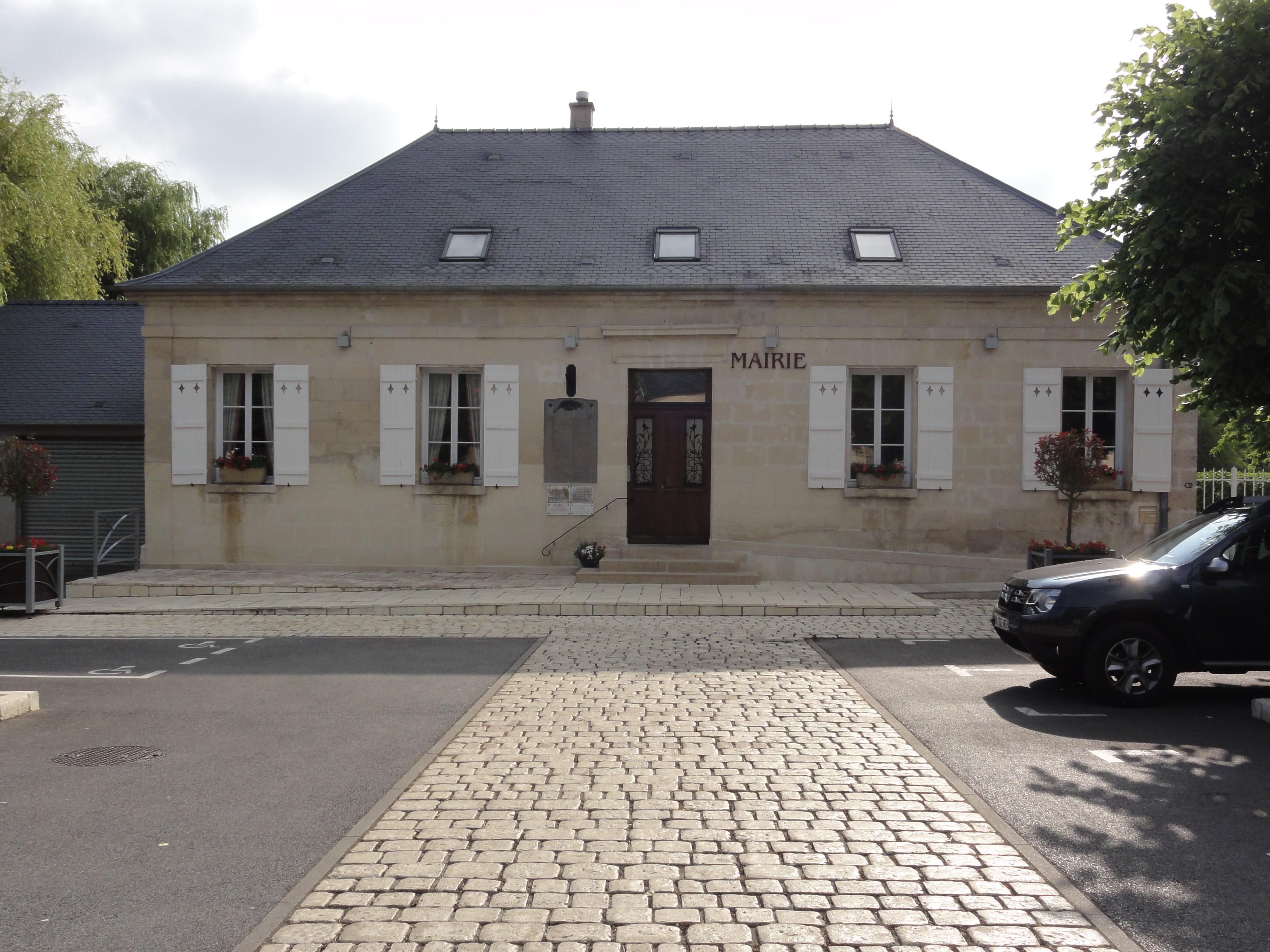 Courmelles (Aisne) mairie